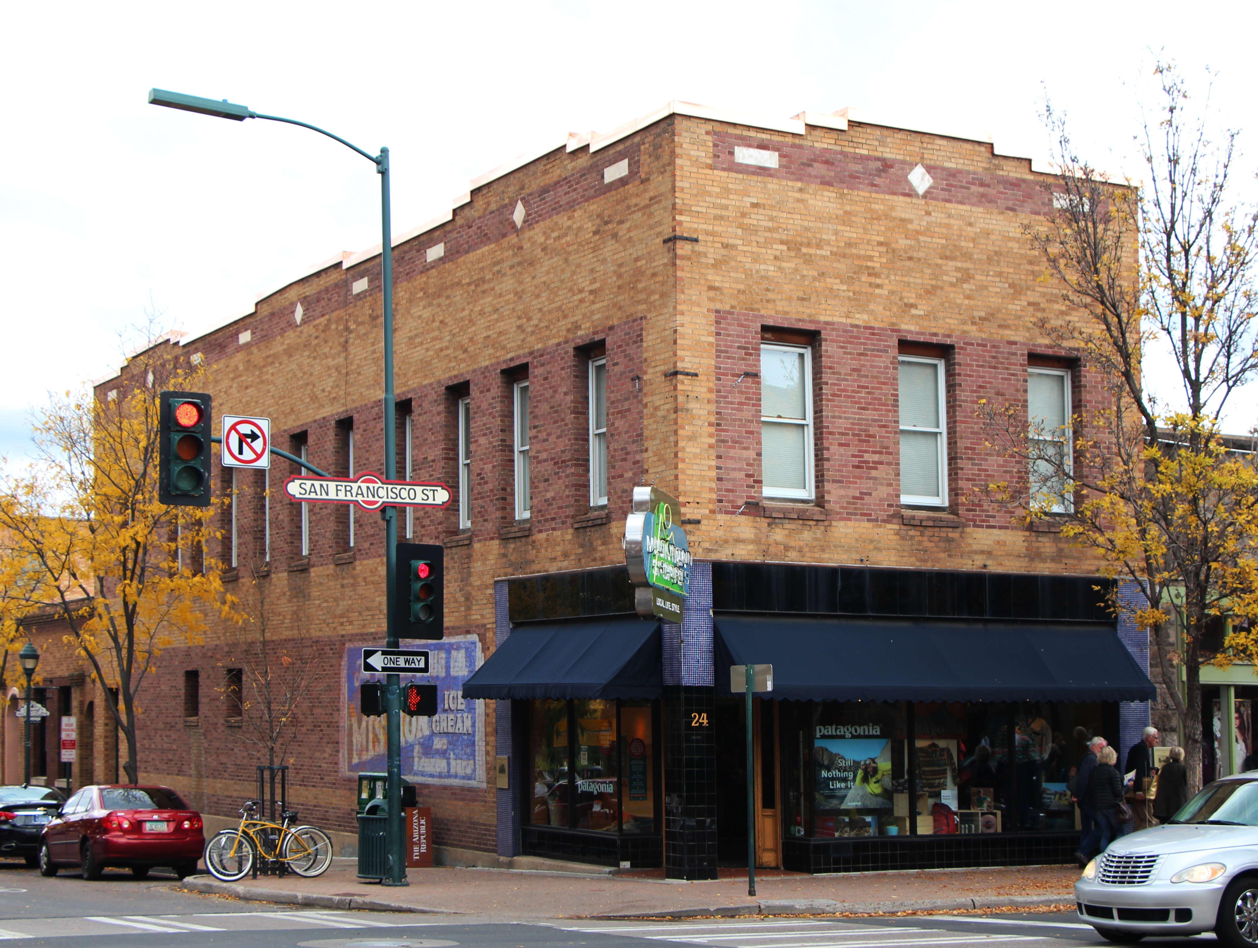 Elks Hall, 24 N San Francisco St, Flagstaff, AZ